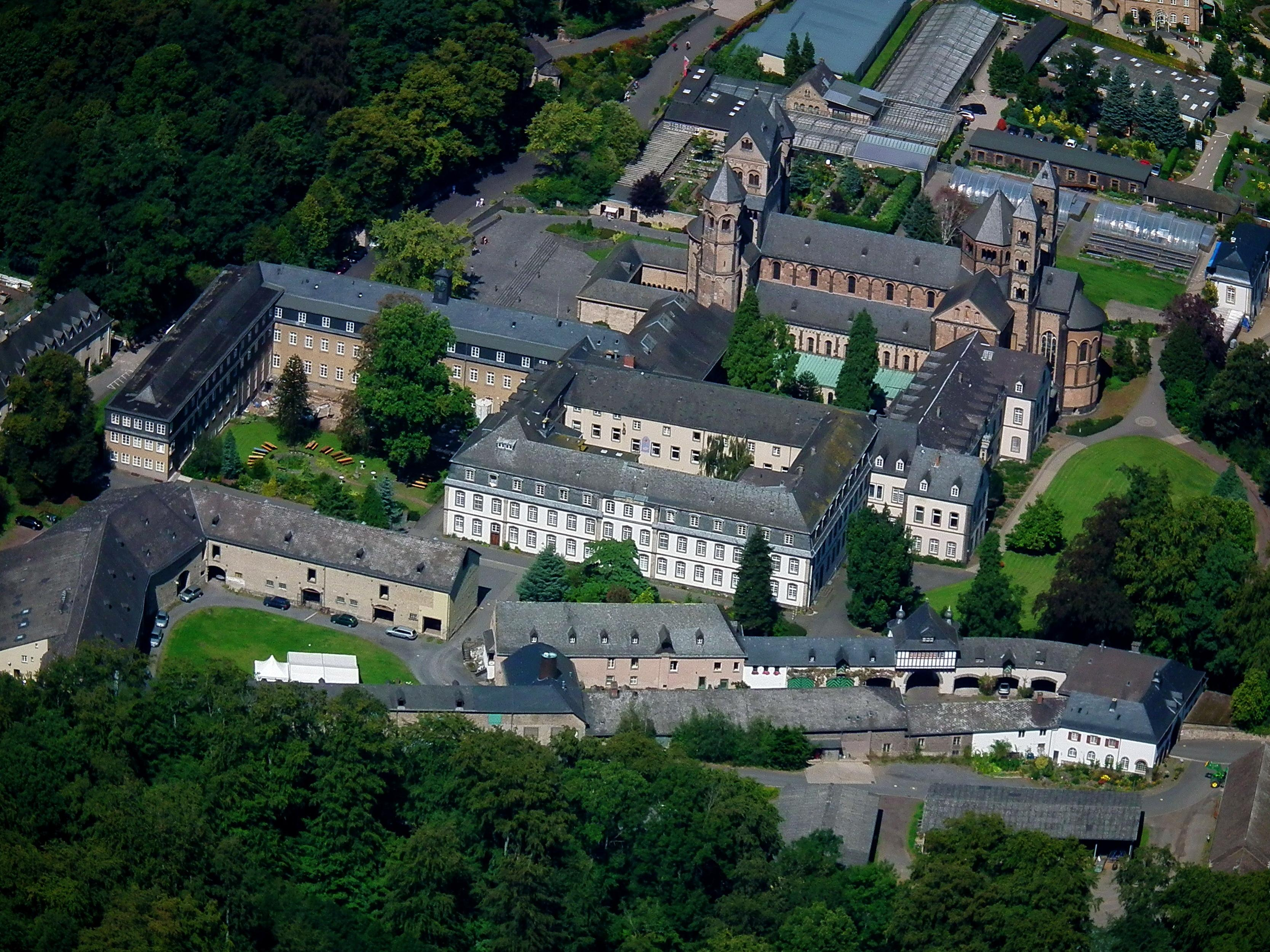 abbey "Maria Laach"